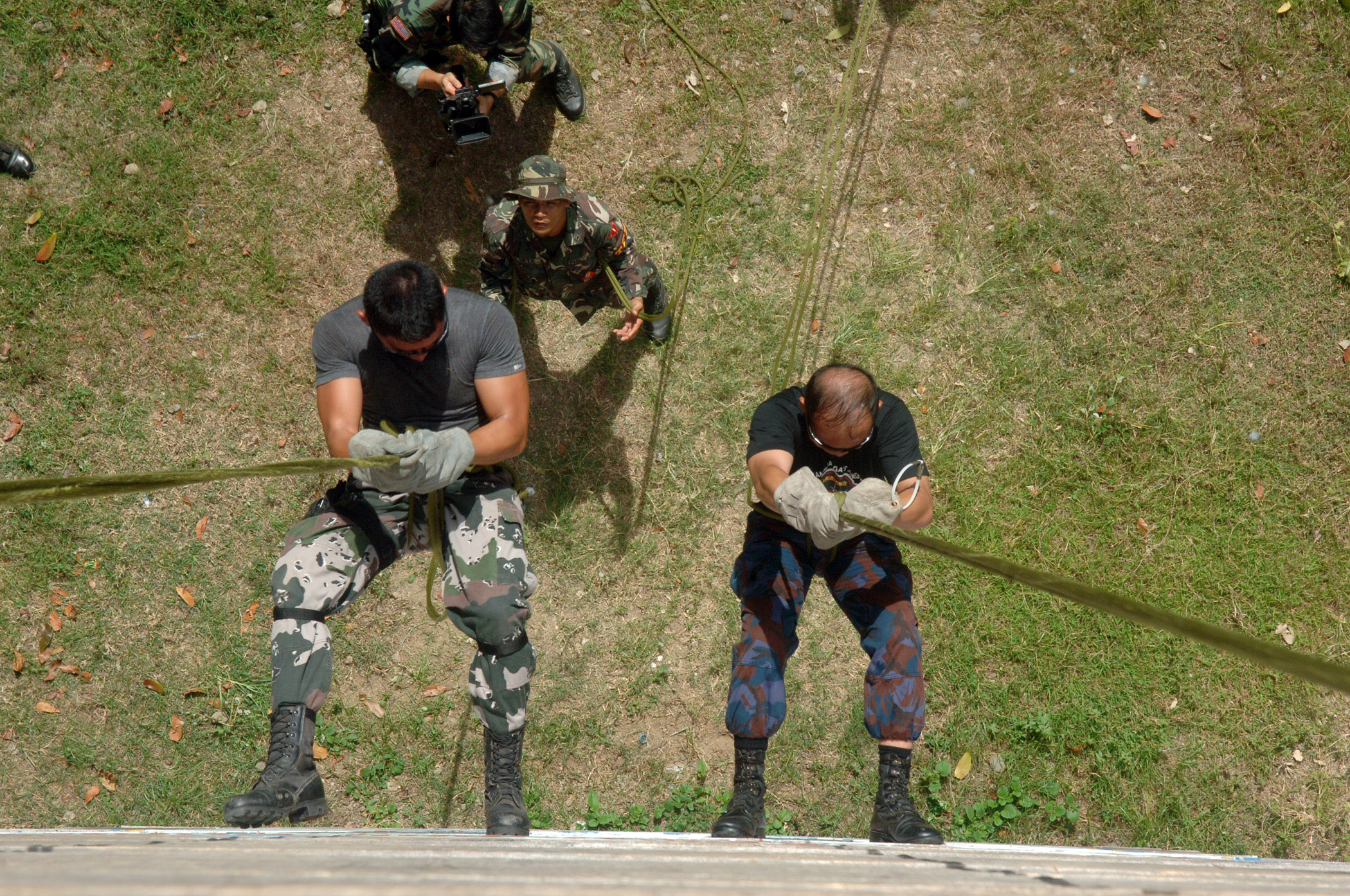 ZAMBOANGA, Republic of the Philippines (May 17, 2007) - Two Armed Forces of the Philippines (AFP) soldiers descend a repel tower during a joint U.S.-AFP-Philippine National Police (PNP) Subject Matter Expert Exchange (SMEE). AFP, PNP and U.S. personnel regularly conduct SMEEs to ensure they can work together in crisis and non-crisis circumstances while maintaining the U.S.-Philippines security partnership. U.S. Navy photo by Mass Communication Specialist 1st Class Troy Latham (RELEASED)